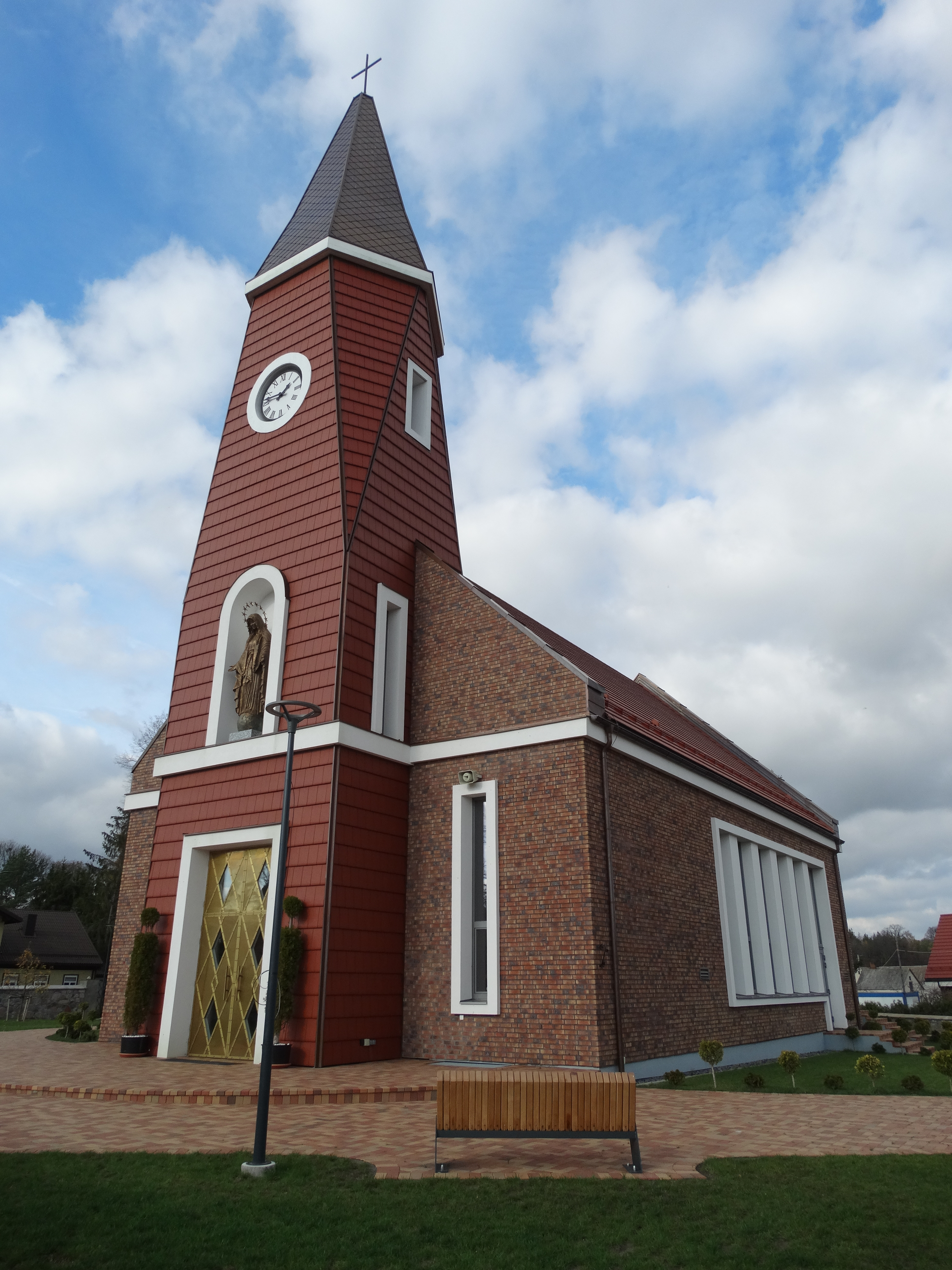 Catholic Church in Balbieriškis, Alytus district, Lithuania